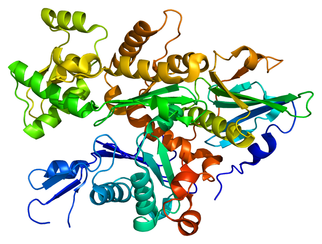 Structure of the GSN protein. Based on PyMOL rendering of PDB 1c0f.